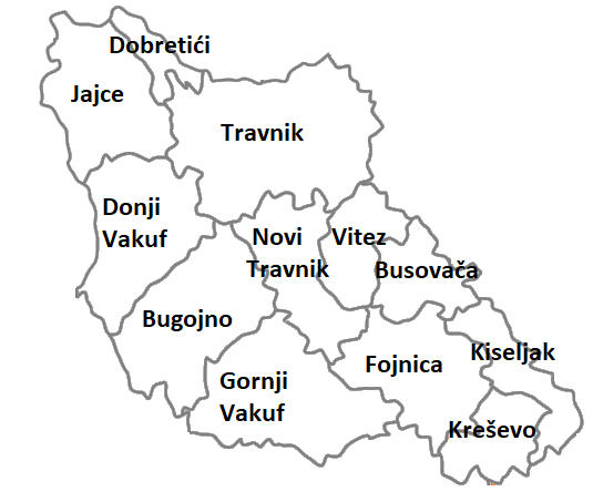 A map of all municipalities in Central Bosnia Canton.